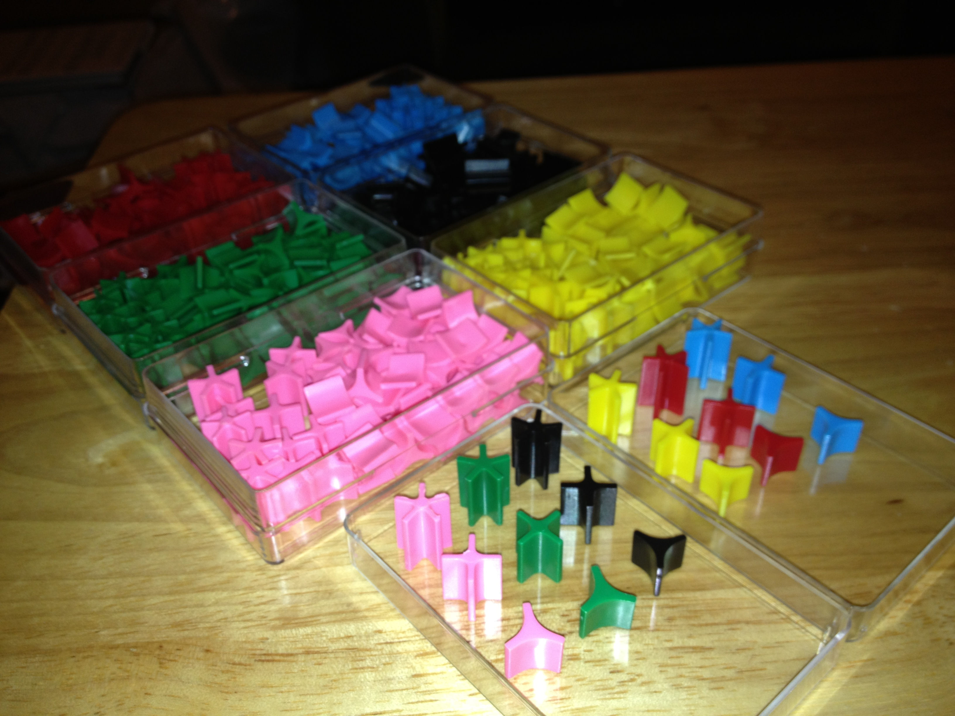 UK edition Risk pieces from the '80s. Six armies: black, red, green, yellow, blue and pink. The three spoke pieces represent 1 army, the four spoke pieces 5 armies and the five spoke pieces 10 armies.